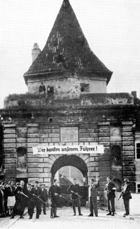 Gateway in Cesky Krumlov after an attack by Czechoslovakian tanks